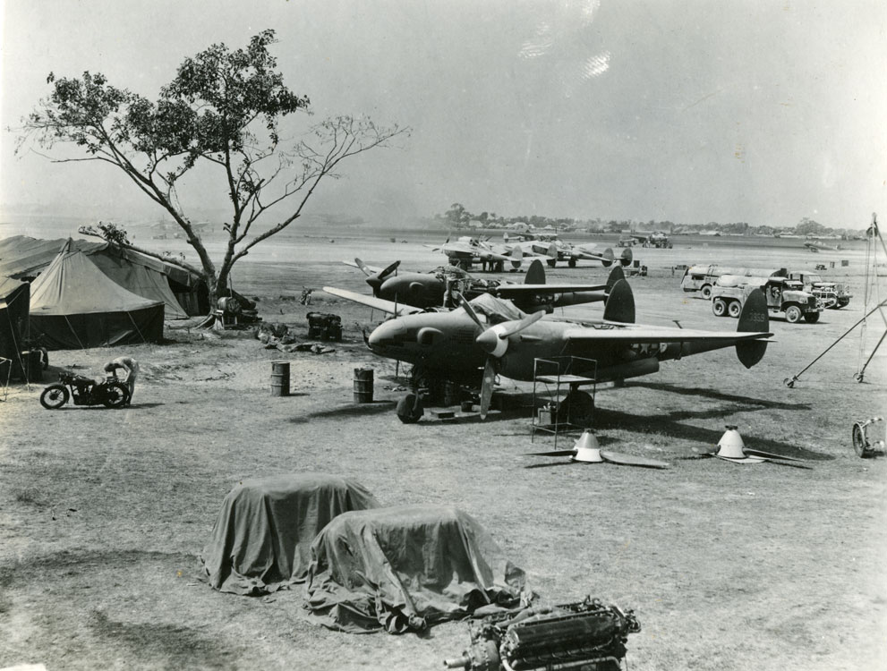 40th PRS flight line, F.S.E. aircraft, Akyab Island, Burma, 1945 Subject: "aircraft, military base"